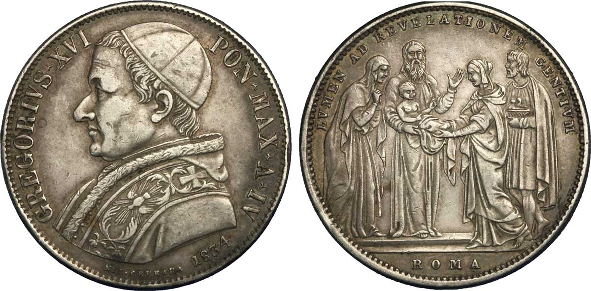 1 Scudo en argent à l'effigie de Grégoire XVI, 1834. Titulature avers : GREGORIVS. XVI. -PONT. MAX. A. IV . Description avers : Buste du Saint-Père à gauche ; signé au-dessous NIC. CERBARA F. . Traduction avers : (Grégoire XVI, souverain pontife, quatrième année) . Titulature revers : LVMEN AD REVOLUTIONE GENTIVM/ ROMA à l'exergue . Description revers : Scène de présentation du Christ . Traduction revers : (La Lumière et la Révélation pour les peuples) .